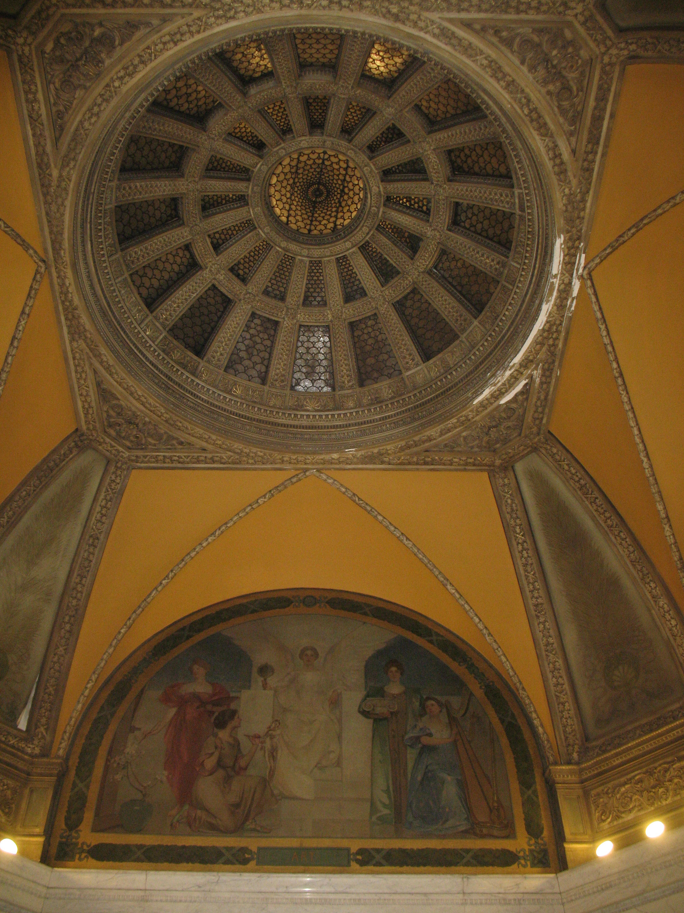 Blackstone Library Rotunda ceiling